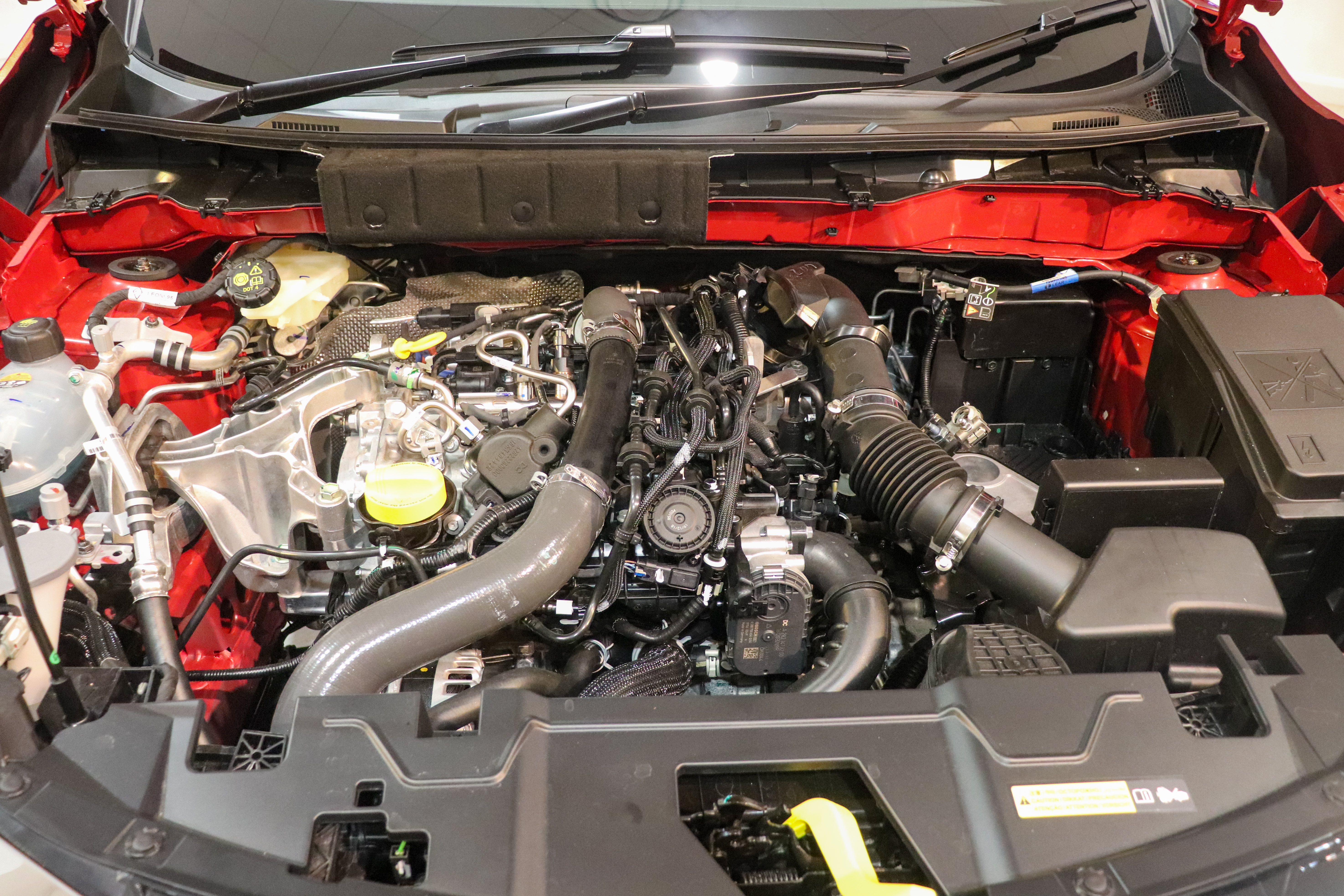 2019 Nissan Juke Tekna+ 1.0 DIG-T 117 Horsepower Engine Taken at the VIP Preview at Arbury Nissan Leamington Spa